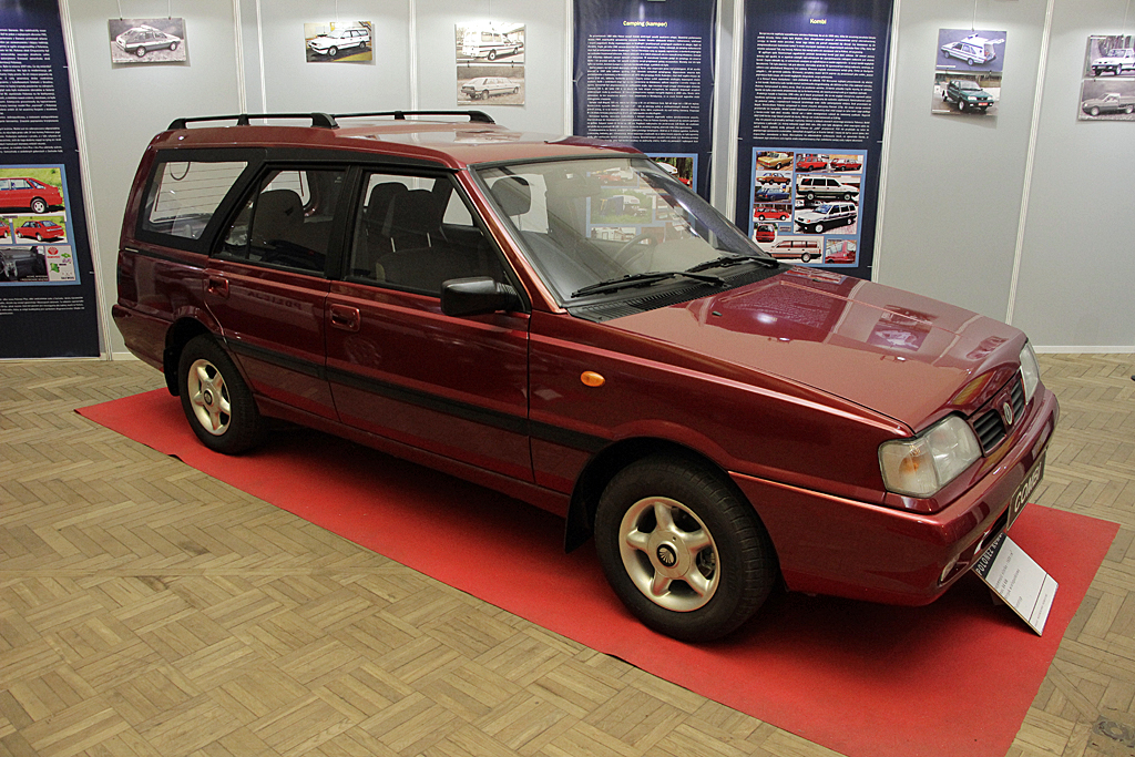 This photo was taken during Automotive Wikiexpedition 2016 set up by Wikimedia Polska Association.You can see all photographs in category Wikiekspedycja motoryzacyjna 2016. English | polski | +/−